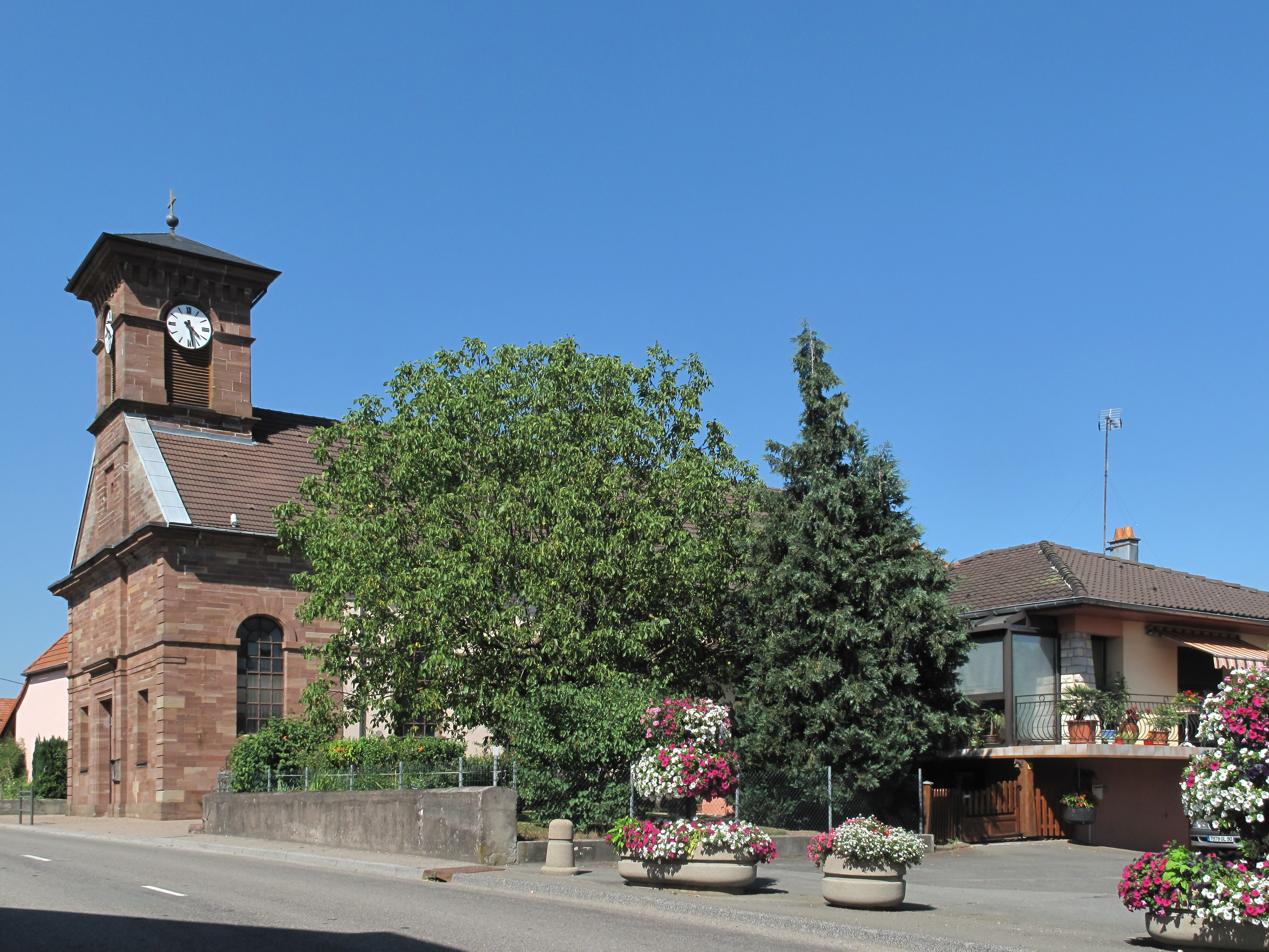 Bessoncourt, church (l'église Sainte-Suzanne) in the street